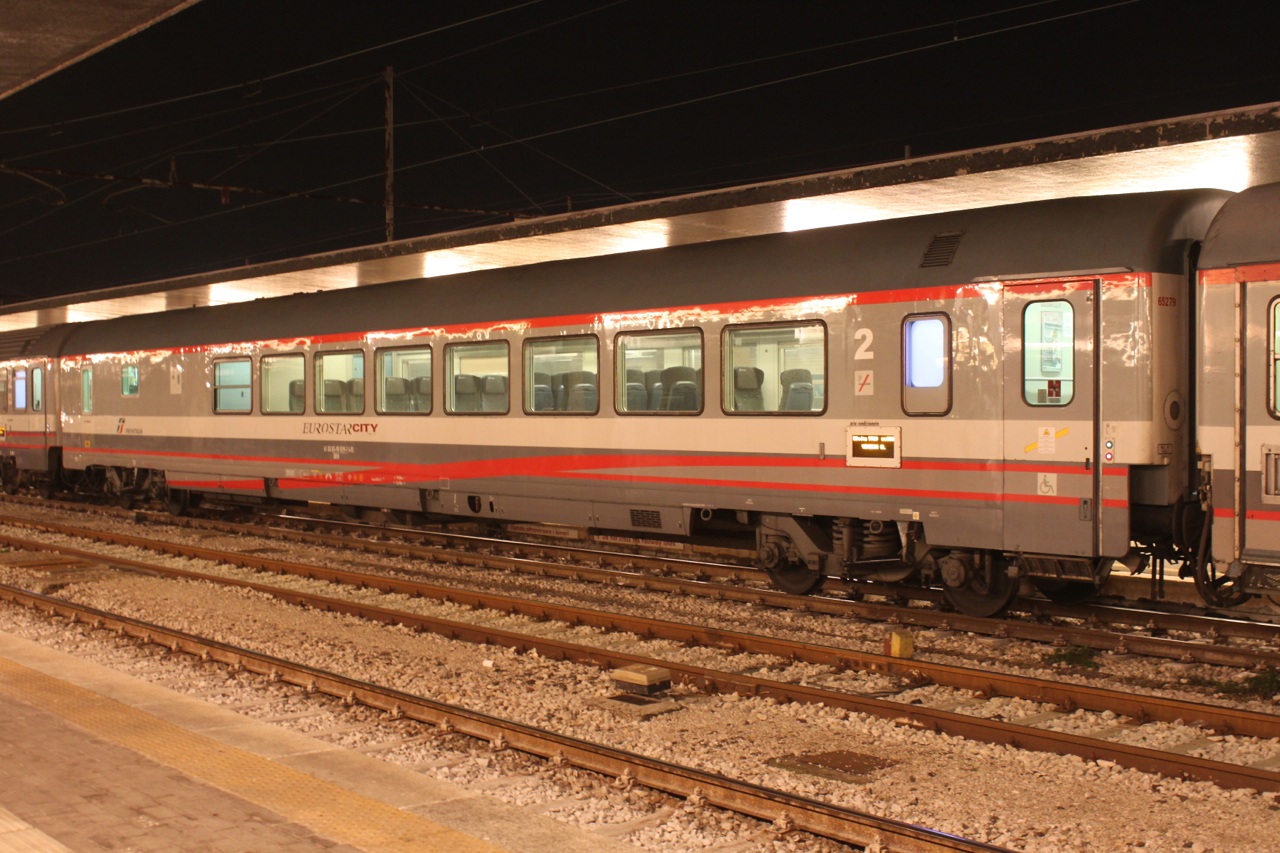 FS BRH 61 83 85-90 059-1 I-FS at Venezia S.L. train station.